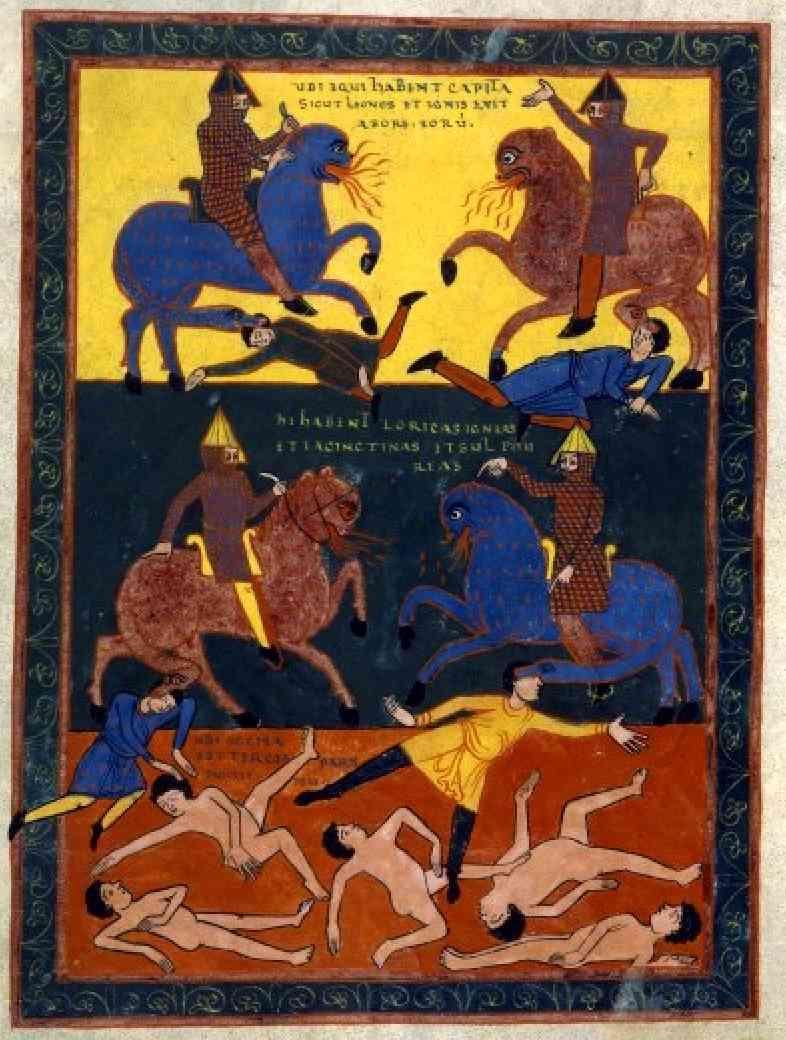 Beatus de Saint-Sever Commentary on the Apocalypse by Beatus of Liébana, copy from before 1072AD, Southwestern France.